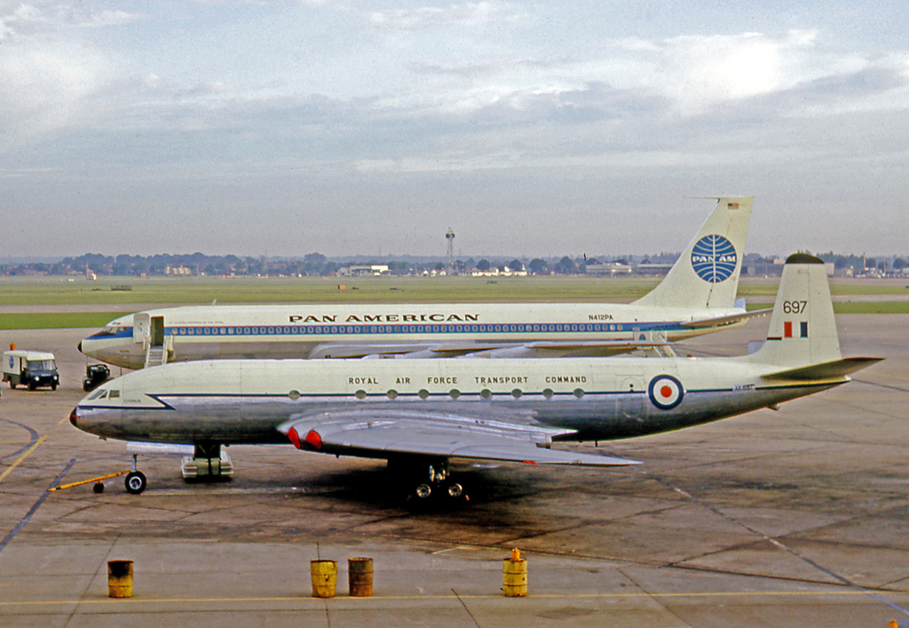 De Havilland 106 Comet C.2 of No. 216 Squadron RAF at London Heathrow in 1965.